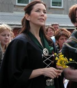 Mary, Crown Princess of Denmark in Vágur, Faroe Islands, 21 June 2005